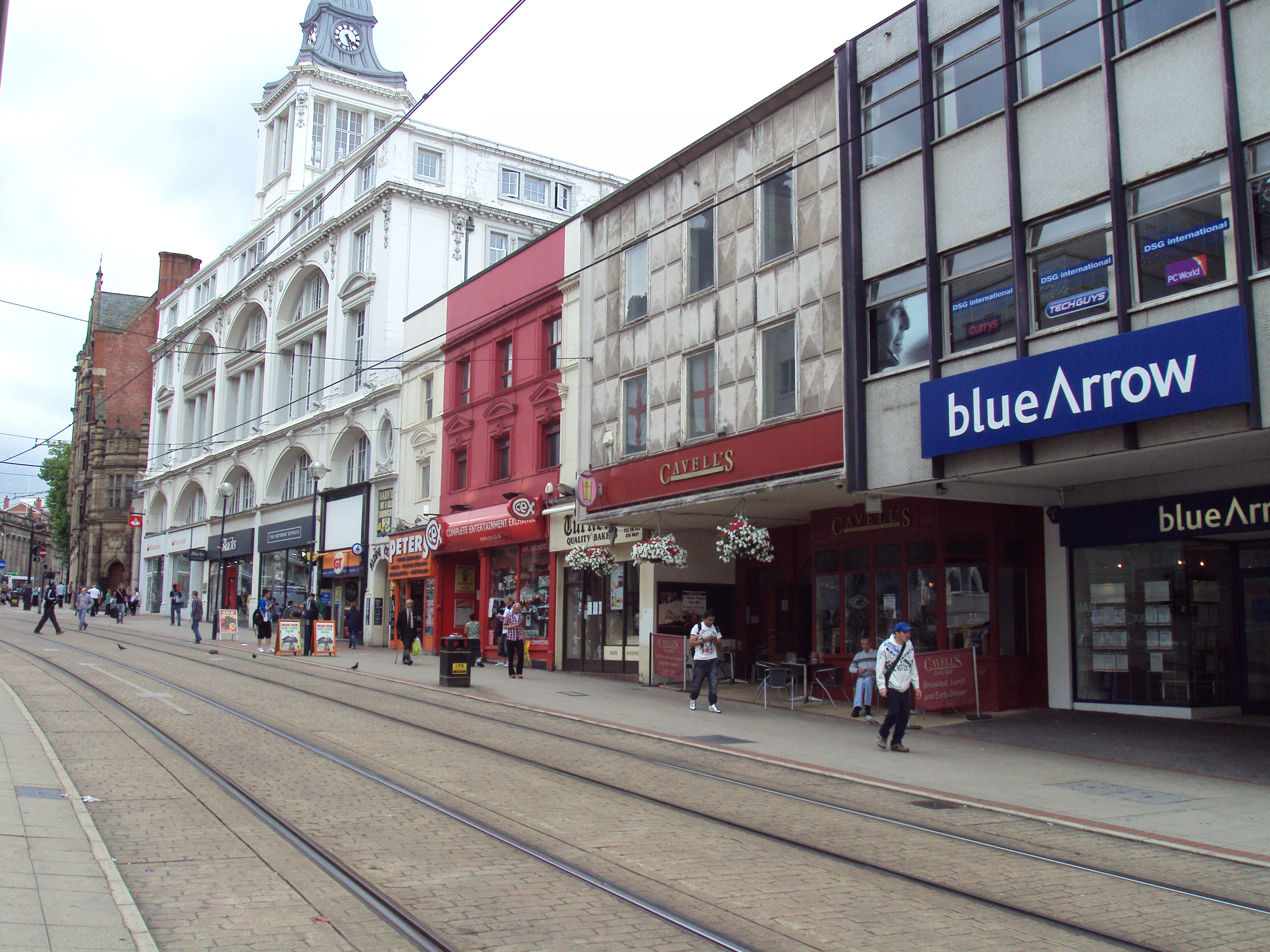 View west along part of High Street, Sheffield, South Yorkshire. The white building centre left is Kemsley House.